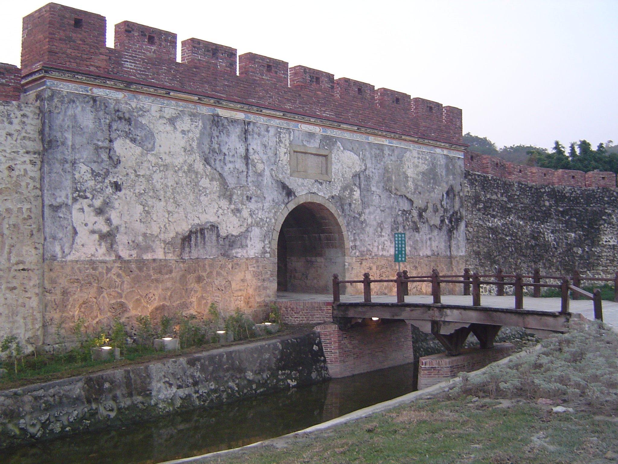 Old east city gate of Fengshan near Kaohsiung, Taiwan. Other city gates of Fengshan: south gate, north gate, former west gate. See also: Side entrance of east gate.